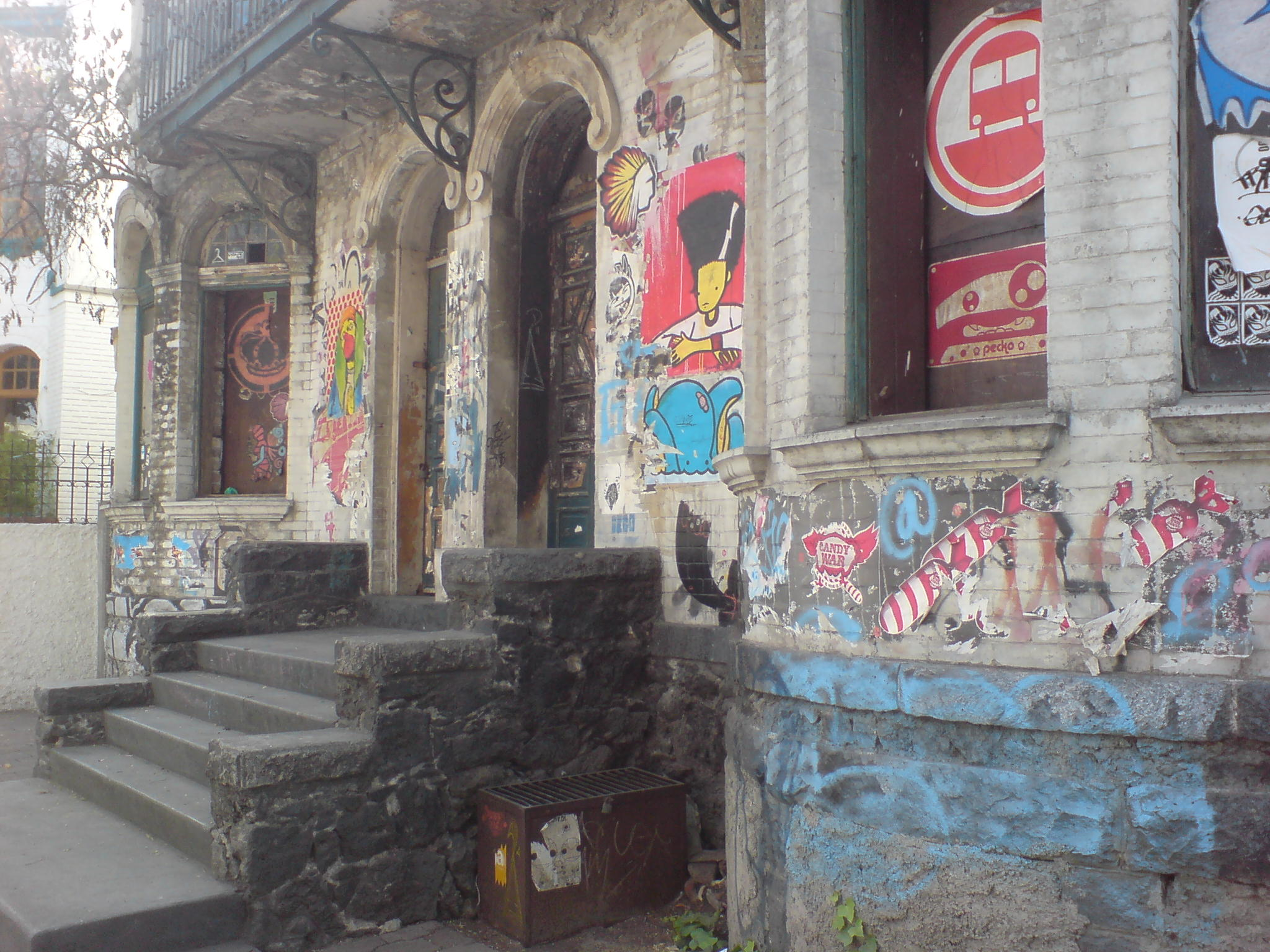 Mexico City